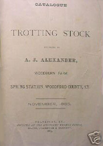 1885 Book Cover, Woodburn Stud Farm sales catalogue